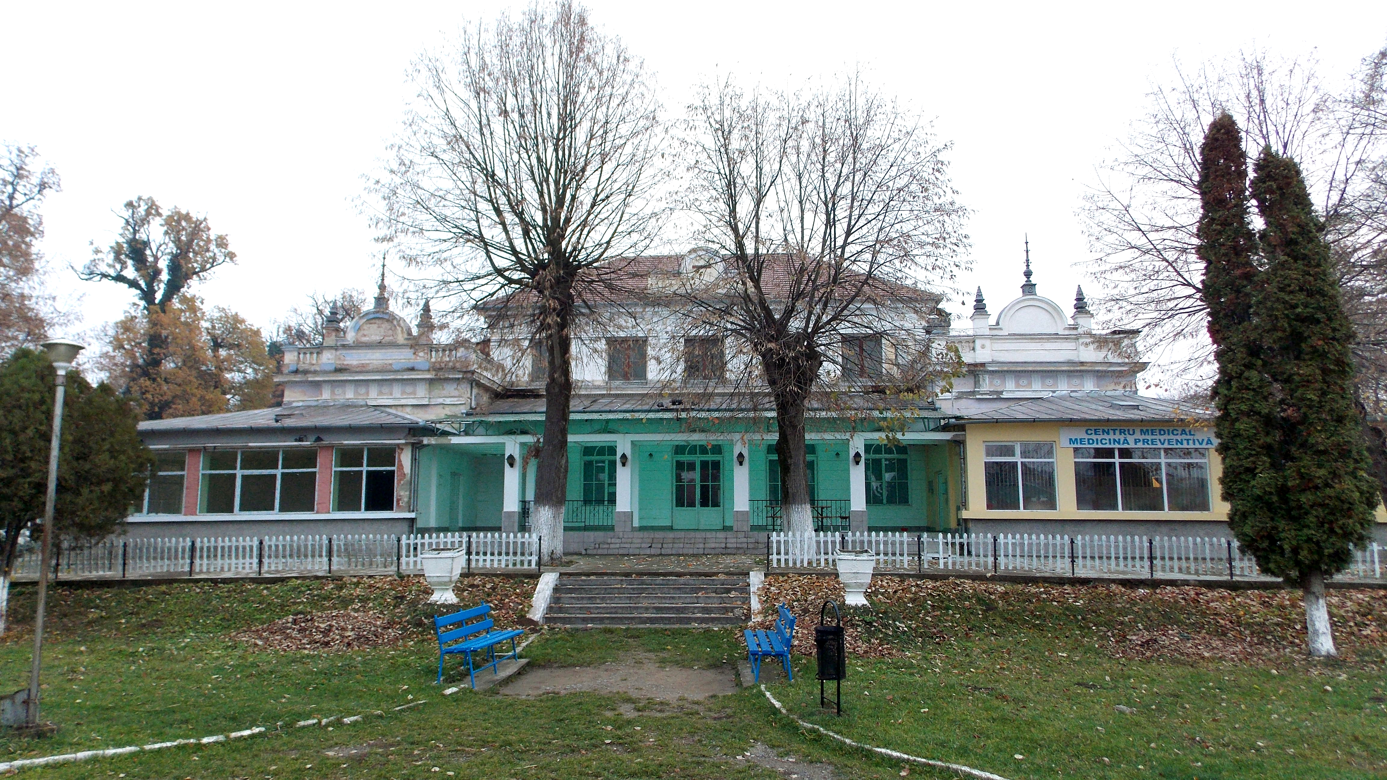 Casino - Baile 1 Mai, Romania